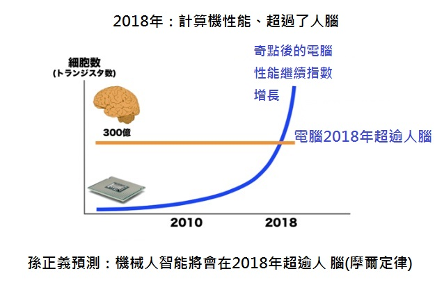 The-singularity-Masayoshi Son